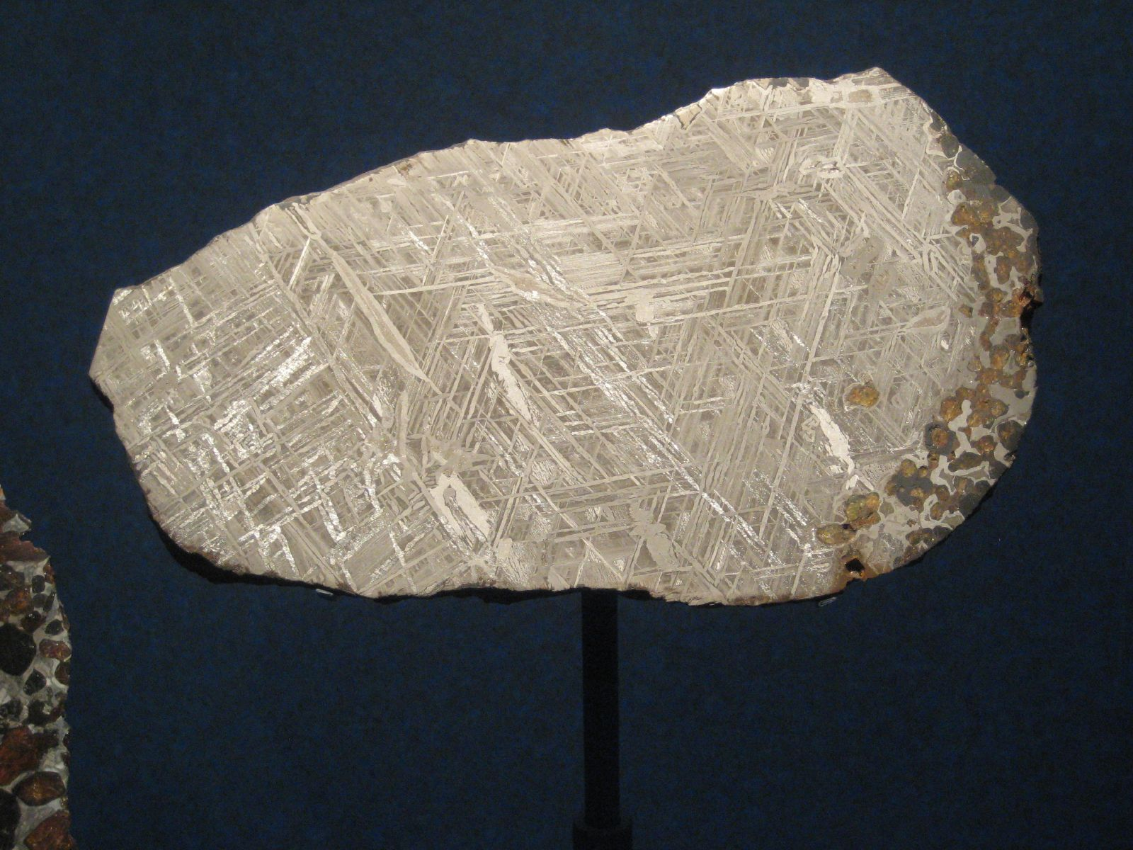 Almost olivine-less sample of Brenham pallasite. Found 1882, Kiowa County, Kansas.